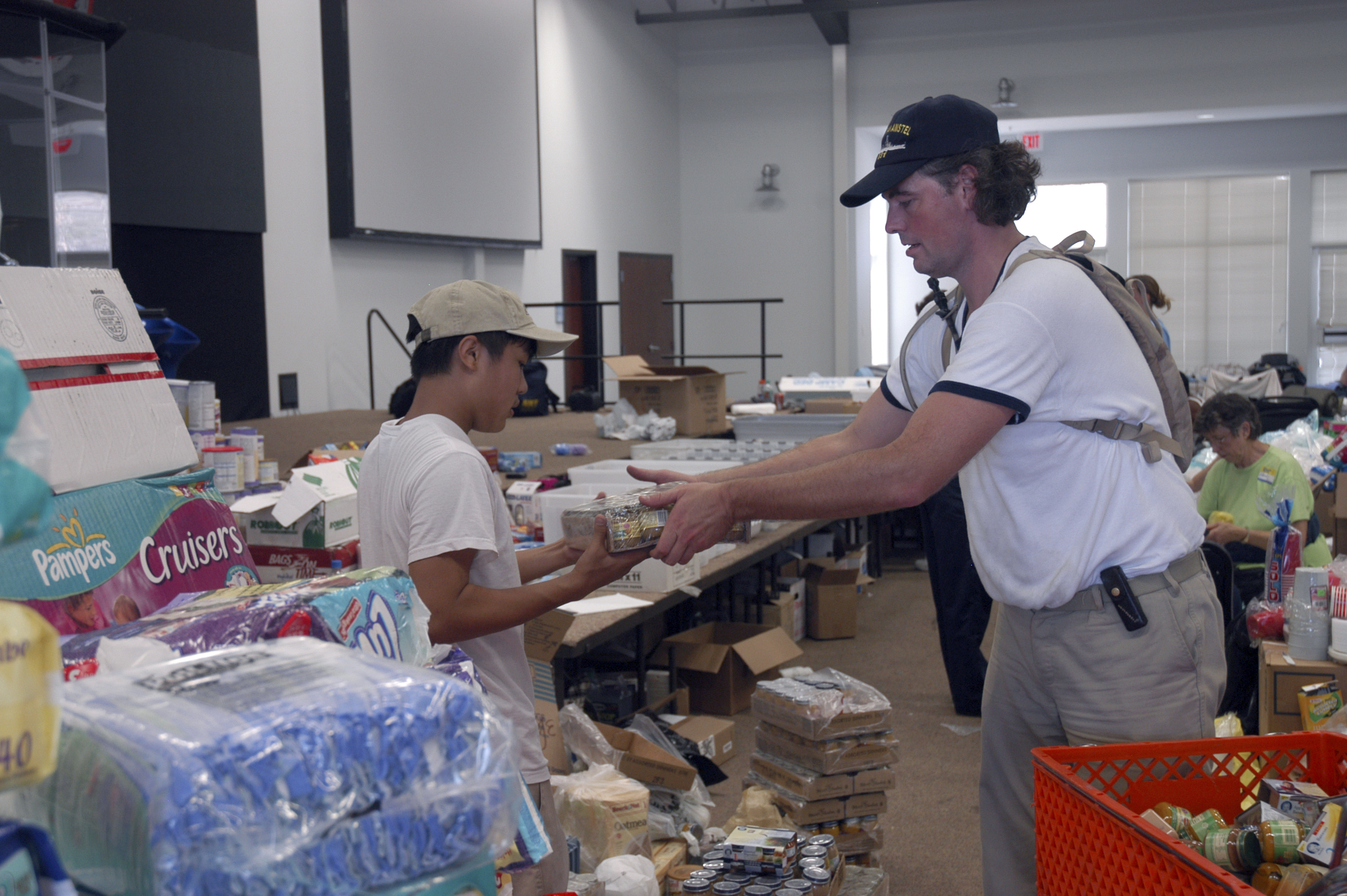 D'Iberville, Miss. (Sept. 8, 2005) - A crew member assigned to the Dutch frigate HMS Van Amstel (F-831), anchored off the coast of Mississippi, helps sort through hundreds of jars of baby food at a church near D'Iberville. Dutch Sailors joined the U.S. military’s joint hurricane relief efforts, led by the Federal Emergency Management Agency (FEMA), to help Hurricane Katrina victims along the Gulf Coast region. U.S. Navy photo by Photographer’s Mate Airman Jeremy L. Grisham (RELEASED)